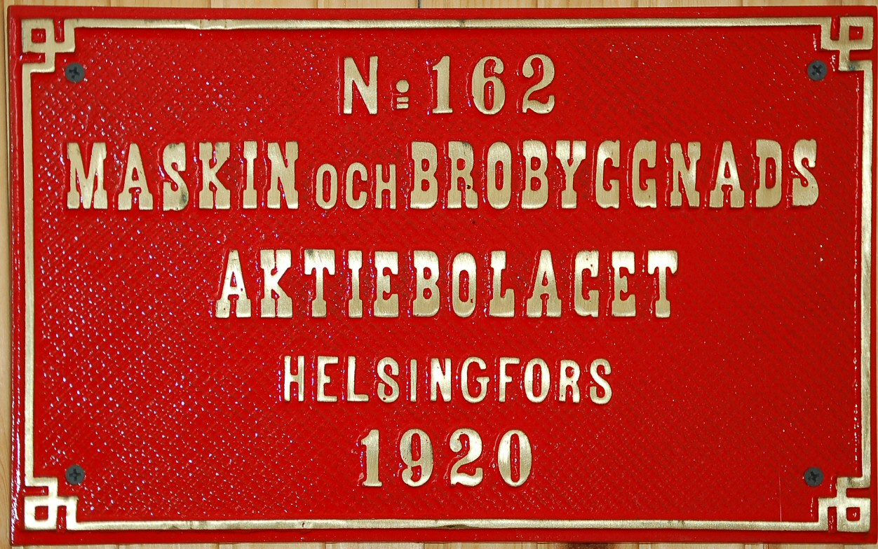 The builder's plate of packet steamer Hailuoto, built in 1920. The plate is displayed in the Hailuotolaiva café in Varjakka, Lumijoki, Finland.